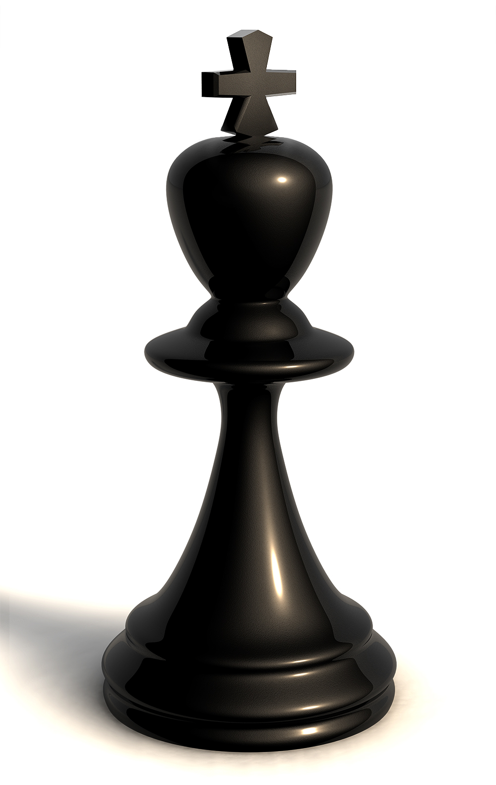 A Piece from the boardgame chess - the king - rendered in the software Cinema 4D